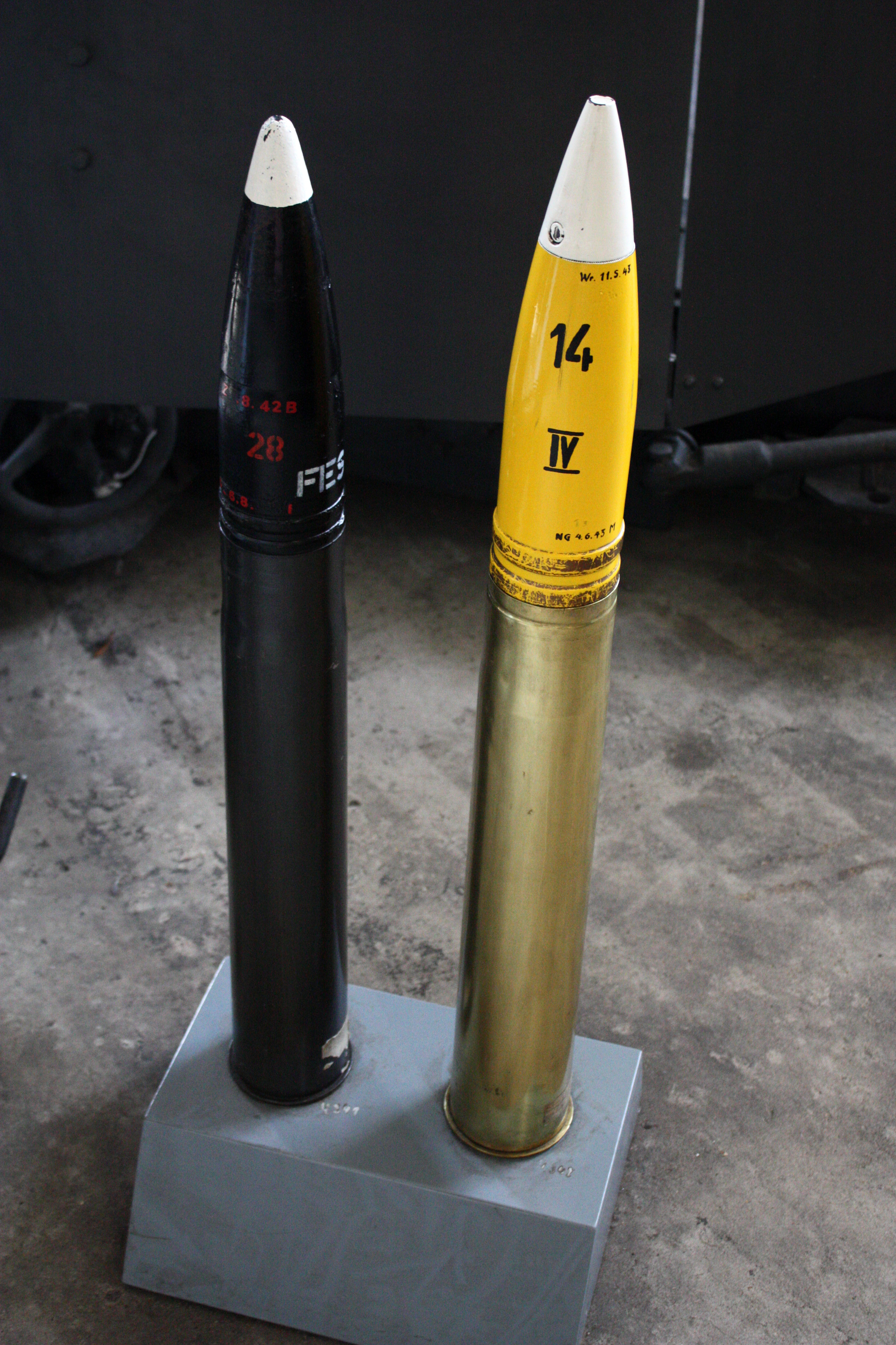 German Tank Museum Munster. Ammunition for 8.8 cm FlaK. See also File:Panzermuseum Munster 2010 0094.JPG for gun.